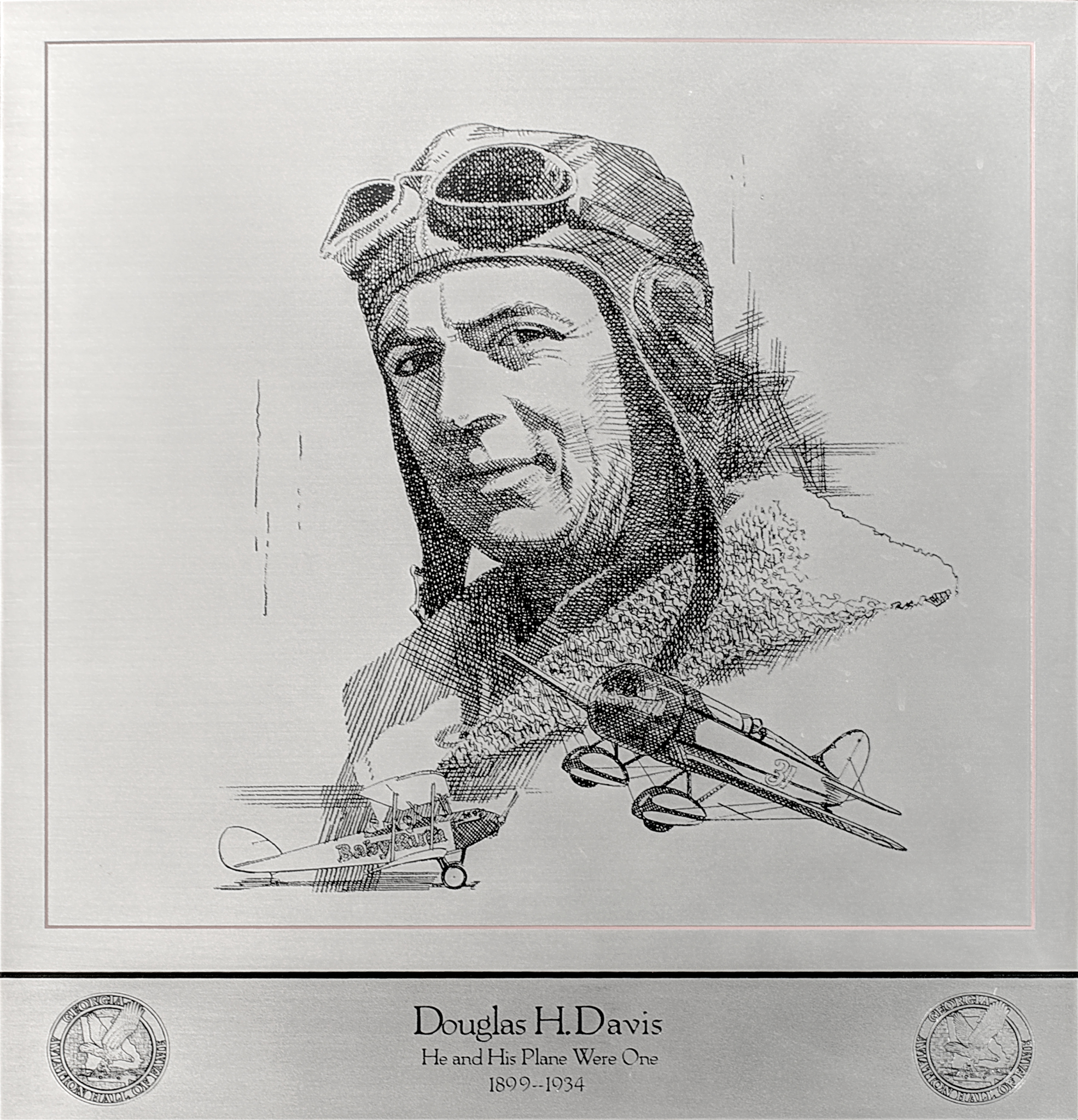 Douglas H. Davis (1899 - 1934)